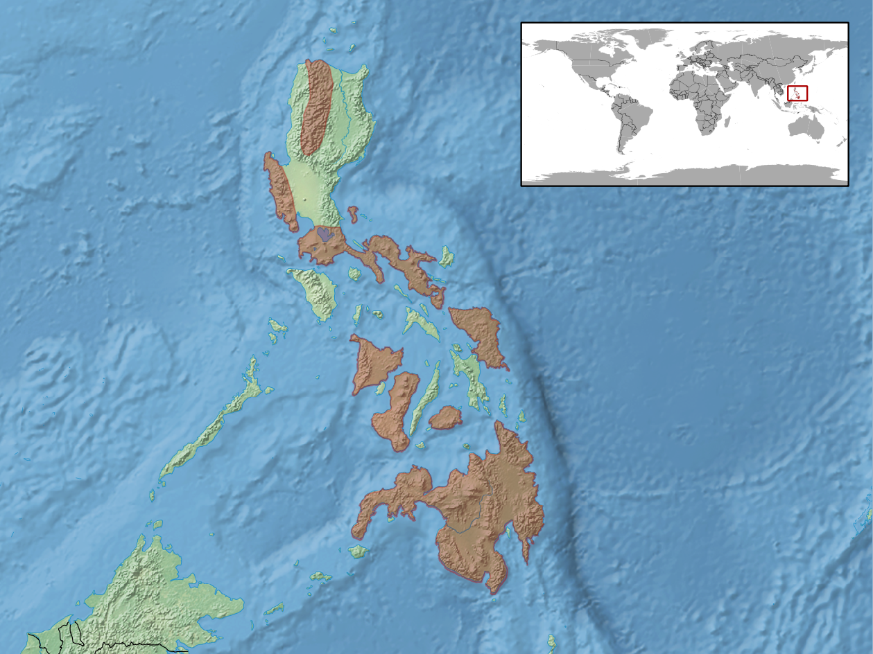 geographic distribution of Lipinia pulchella